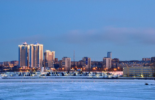 Samara